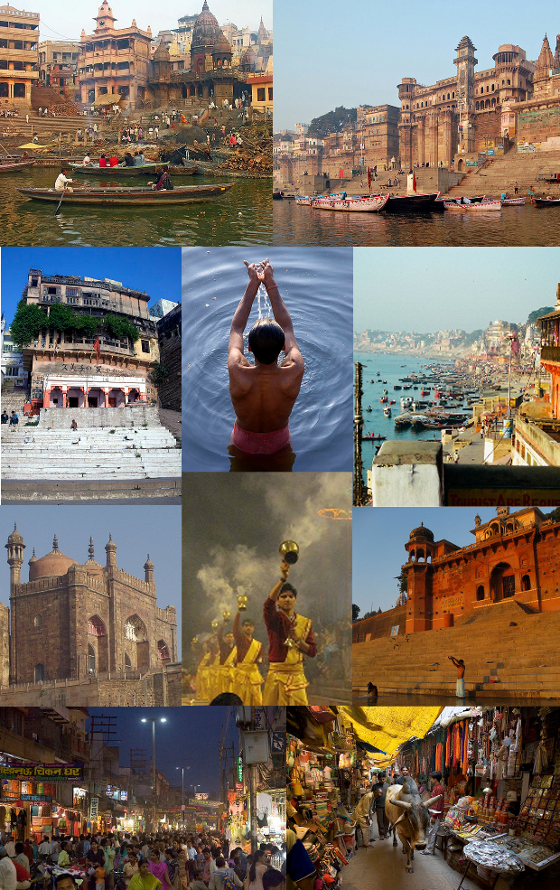 Varanasi collage.